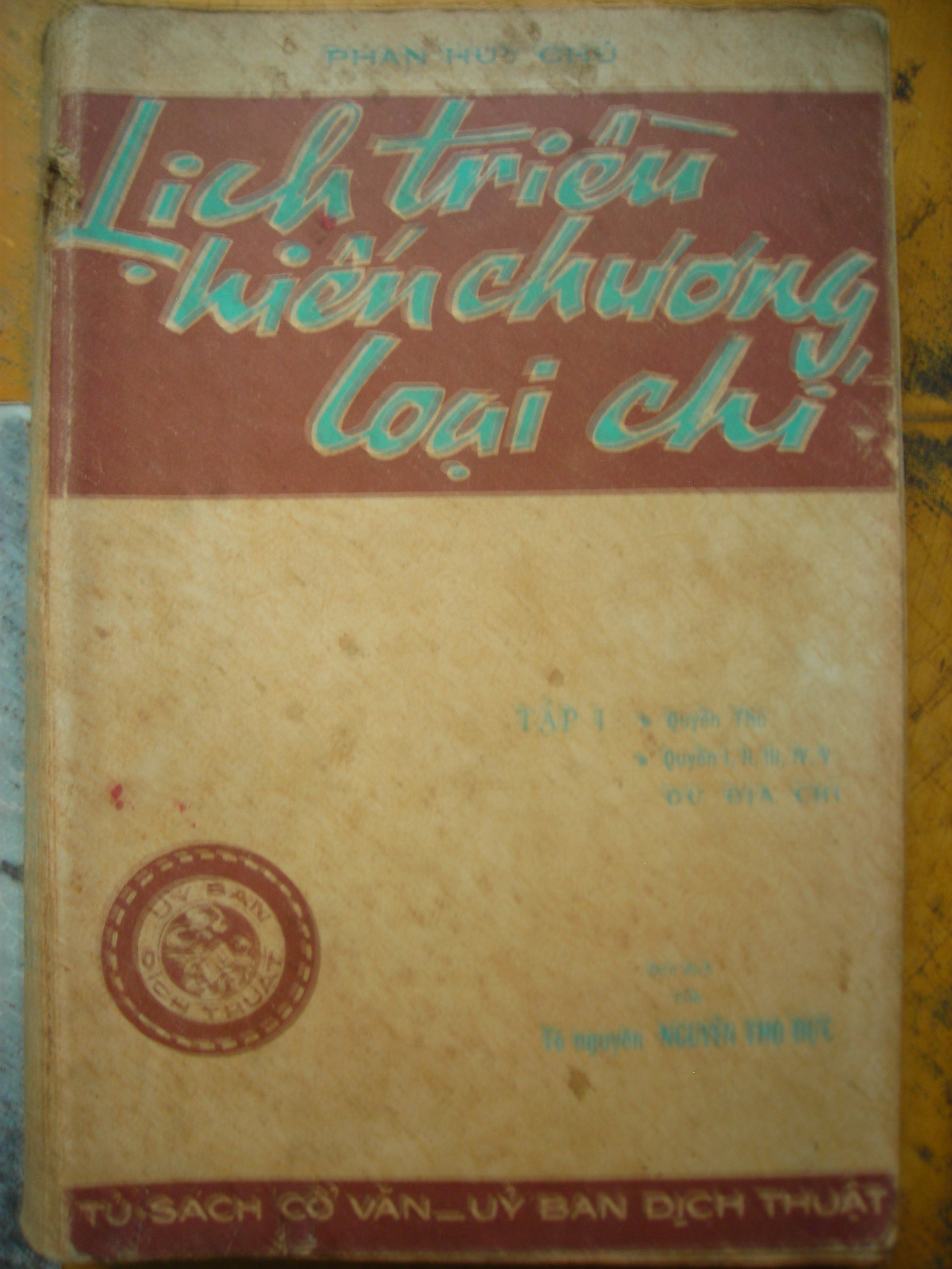 Book/document offered by author, my friend's father.